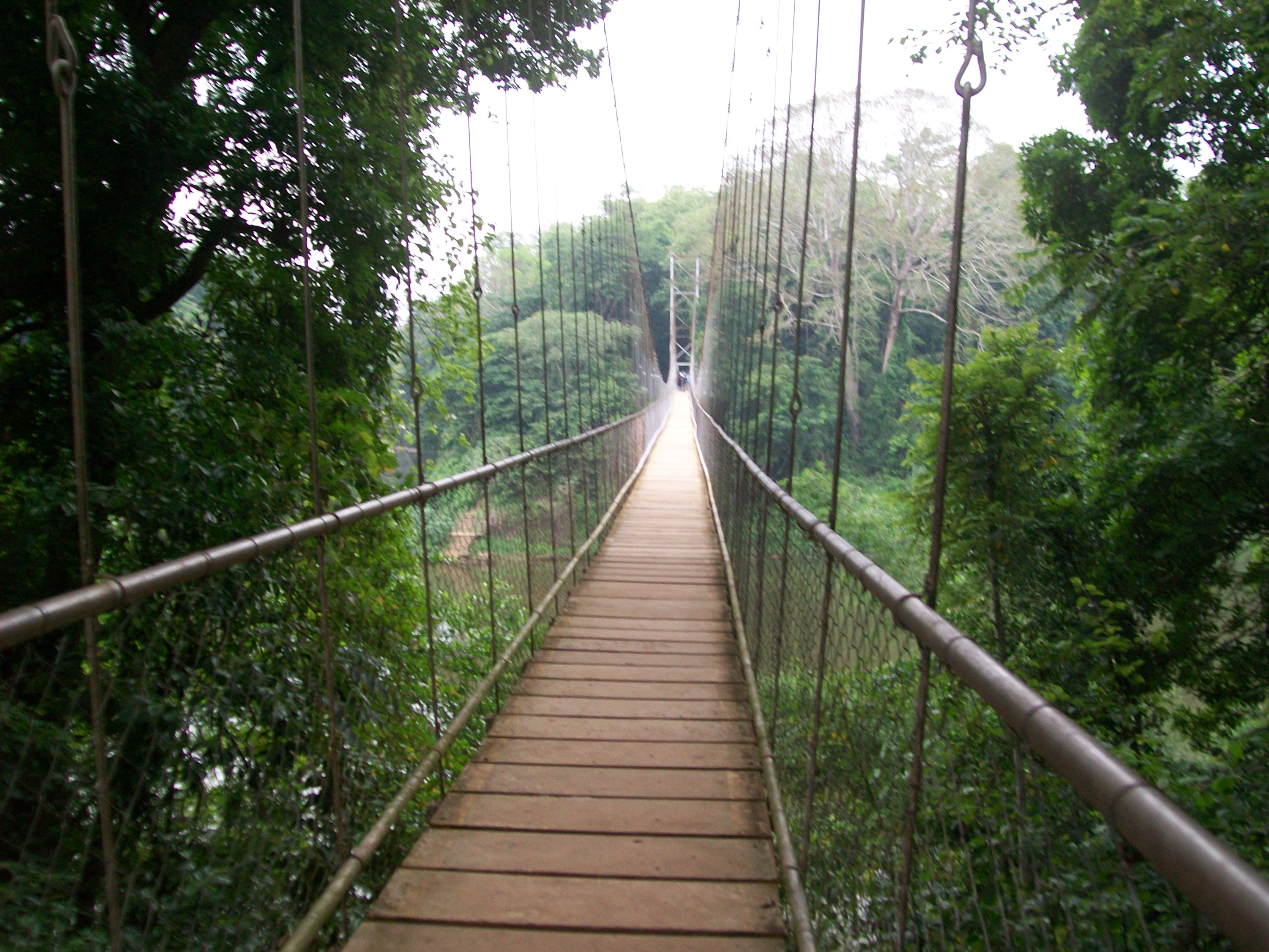 THE WOODEN FOOT HANGING BRIDGE ACROSS THE NILAMBUR RIVER TO CANOLI PLOT,WORLD'S OLDEST TEAK PLANTATION